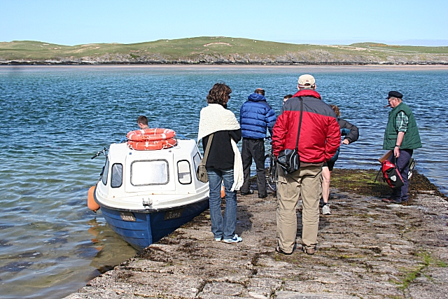 The Keoldale Ferry This is the ferry across the Kyle of Durness which connects with the Cape Wrath minibus. A small boat is necessary because the kyle is very shallow at low tide. On this, the last crossing of the day, there were three bicycles, six passengers and the minibus driver as well as the ferryman on board.